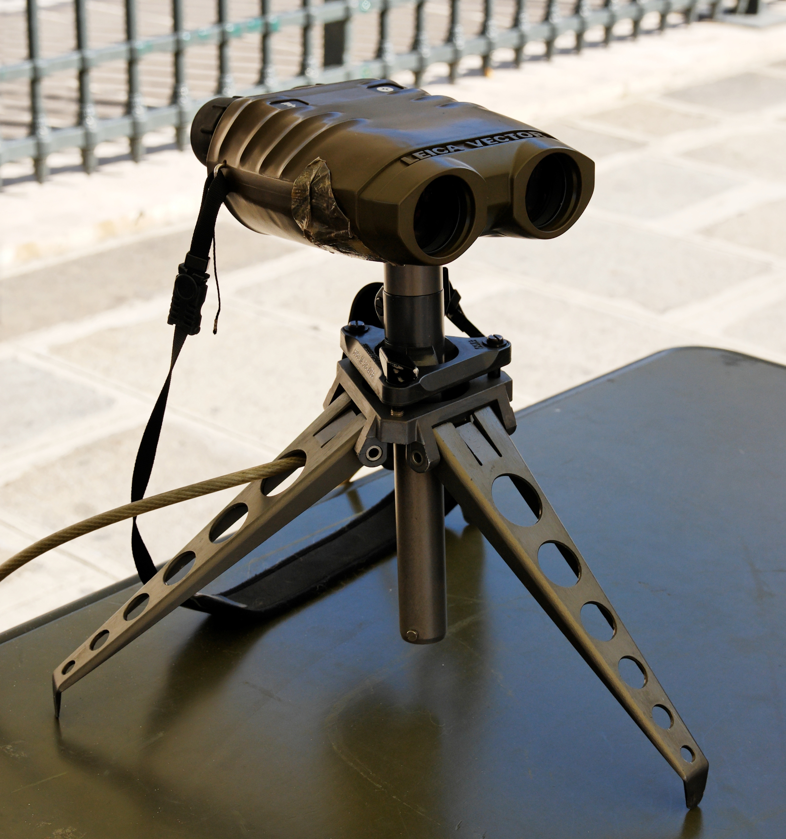 Leica Vector rangefinder binoculars. This laser rangefinder can measure distance and angles and also features a 360° digital compass and class 1 eye safe filters.